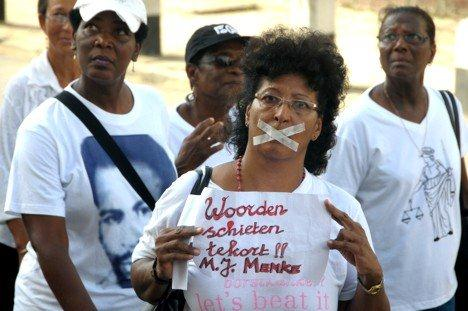 December murders amnesty protests in Paramaribo on April 10, 2012